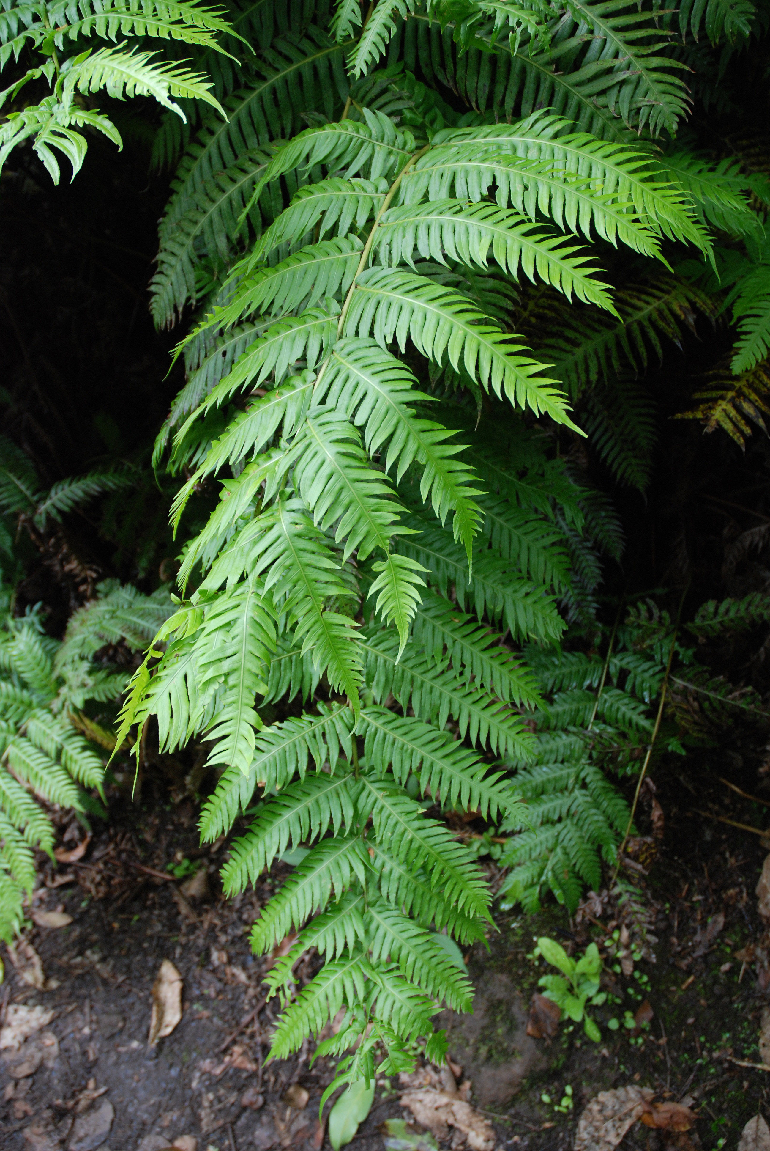 Woodwardia radicans, Cubo de la Galga, La Palma, Spain